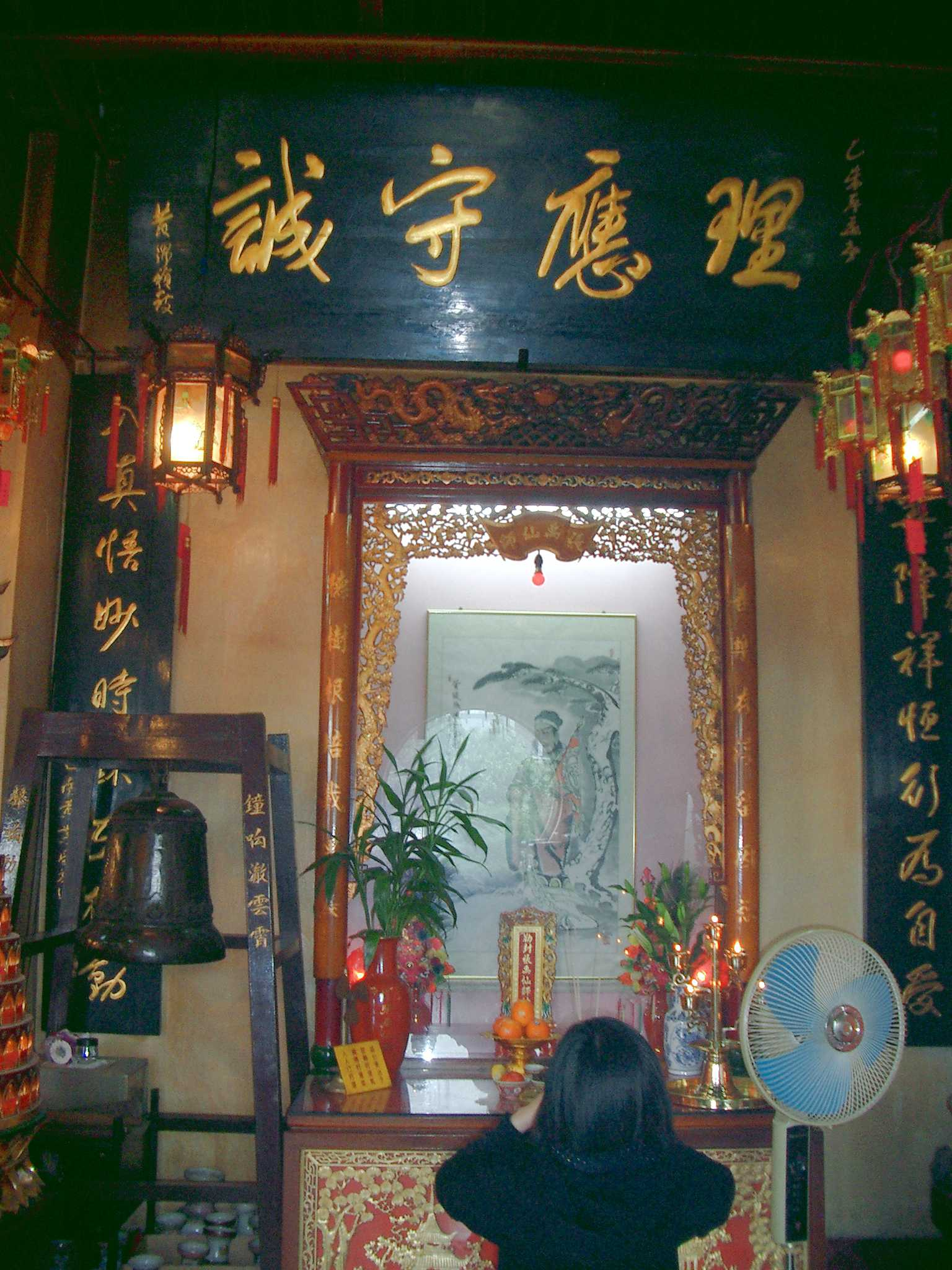 Cheung Yu Altar, Yuen Ching Kwok, Ching Cheung Road, Hong Kong